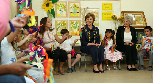 Mrs. Laura Bush joins students at Hand in Hand School for Jewish-Arab Education Wednesday, May 14, 2008, during her visit to Jerusalem. Joining her on the tour of the school that provides integrated, bilingual education to Jewish and Arab students in Israel is Mrs. Aliza Olmert, spouse of Israeli Prime Minister Ehud Olmert. White House photo by Shealah Craighead